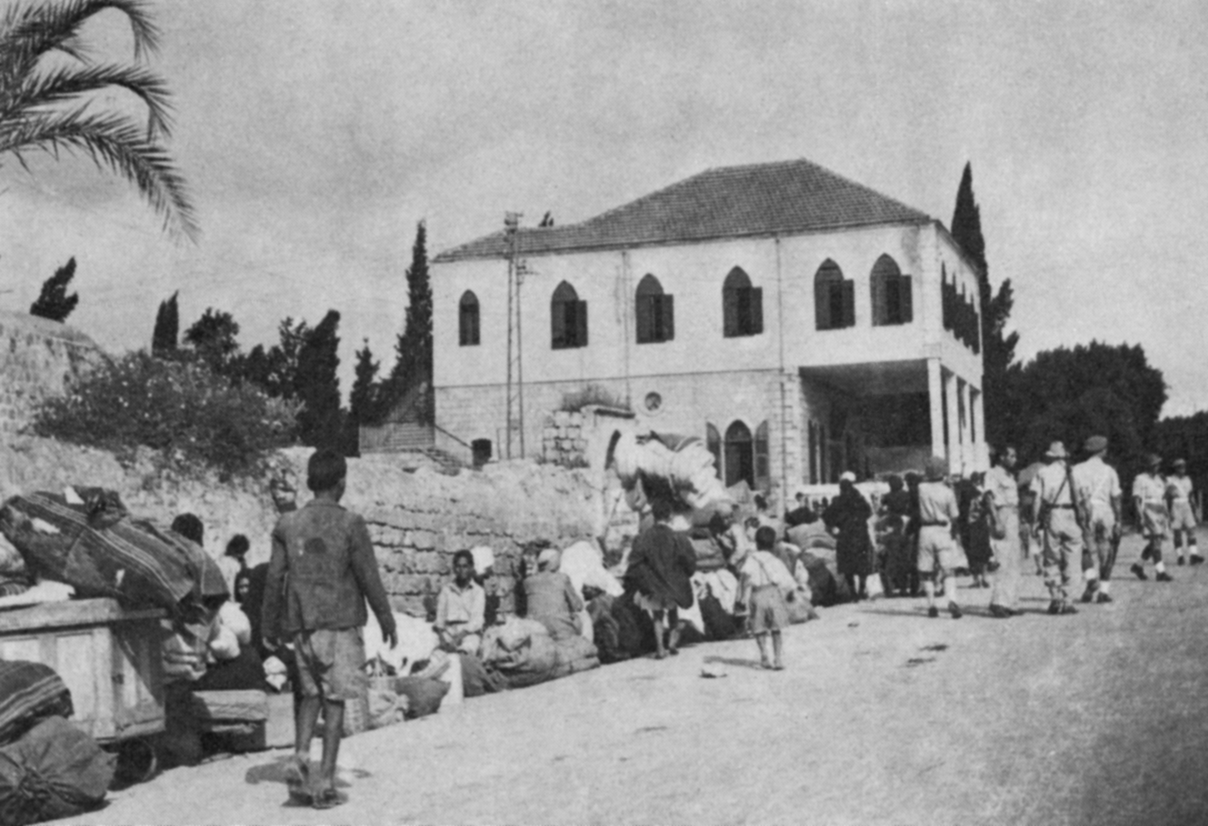 Refugees being expelled from Ramla in July 1948. This work or image is now in the public domain because its term of copyright has expired in Israel (details). According to Israel's copyright statute from 2007 (translation), a work is released to the public domain on 1 January of the 71st year after the author's death (paragraph 38 of the 2007 statute) with the following exceptions: A photograph taken on 24 May 2008 or earlier — the old British Mandate act applies, i.e. on 1 January of the 51st year after the creation of the photograph (paragraph 78(i) of the 2007 statute, and paragraph 21 of the old British Mandate act). If the copyrights are owned by the State, not acquired from a private person, and there is no special agreement between the State and the author — on 1 January of the 51st year after the creation of the work (paragraphs 36 and 42 in the 2007 statute). See also category: PD Israel & British Mandate.